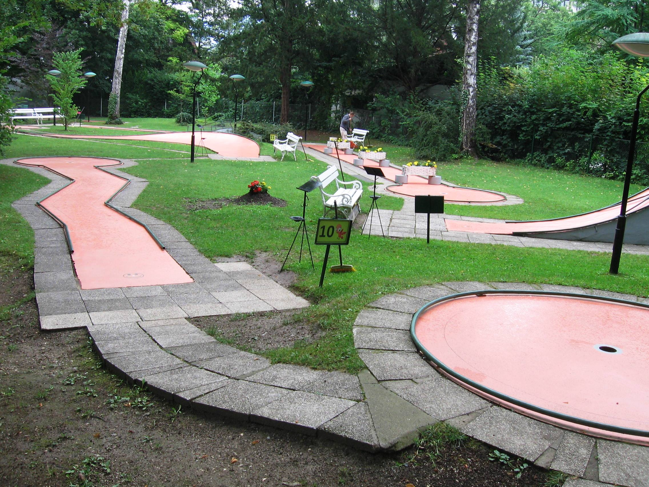 Mini golf course, Bled, Slovenia